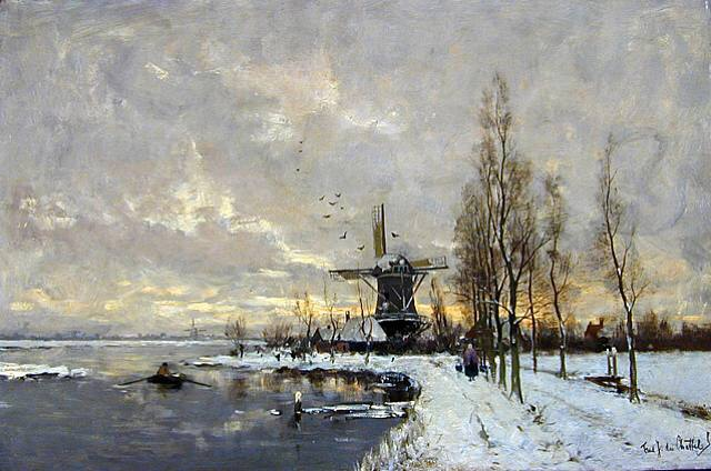 Landschap met molen